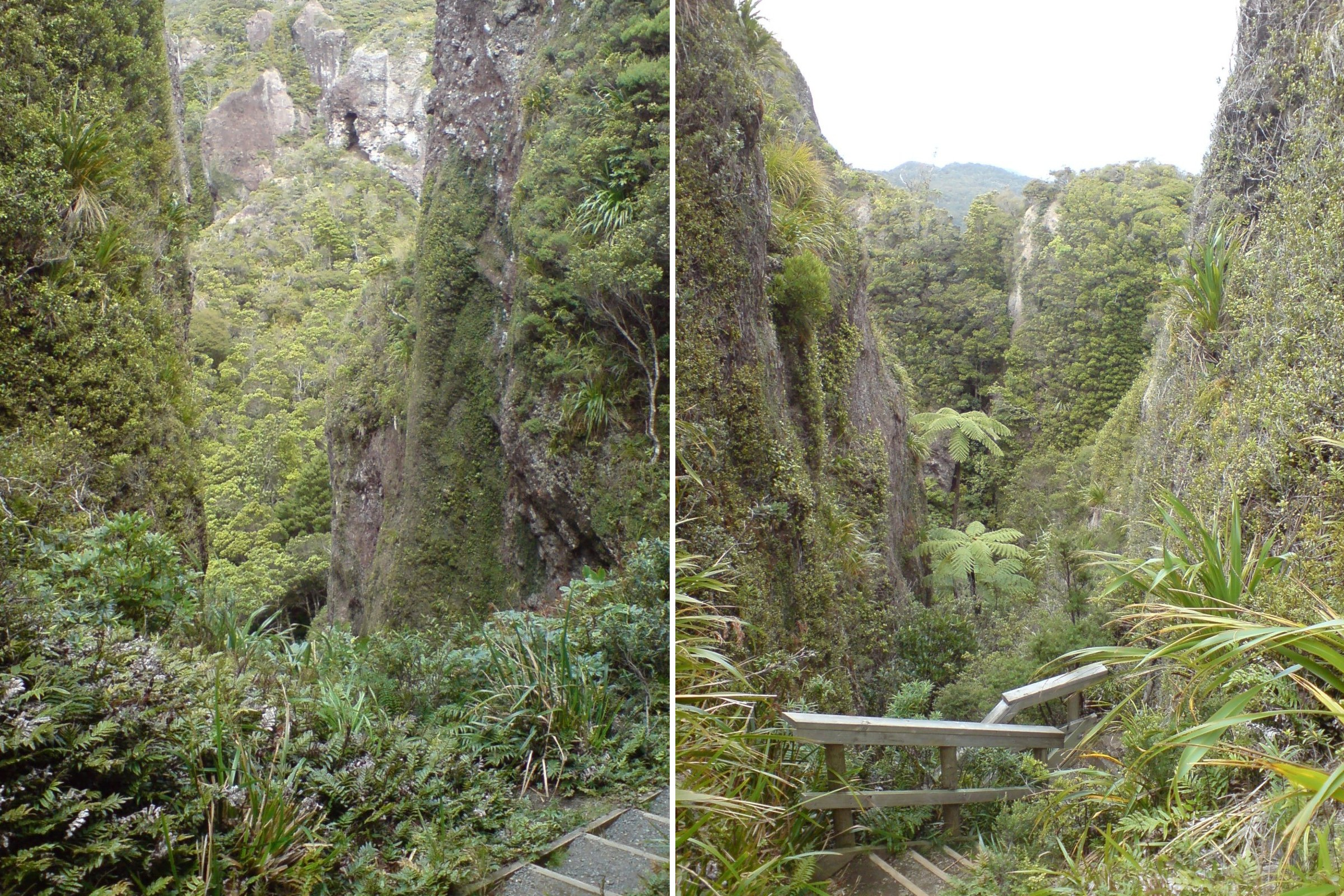 Collage of Windy Canyon on Great Barrier Island, New Zealand. The right-hand picture is taken southwards from the highest point of the canyon, whereas the left-hand picture is taken looking westwards down into the side-canyon, approximately taken from between the two palms visible in the right-hand image.